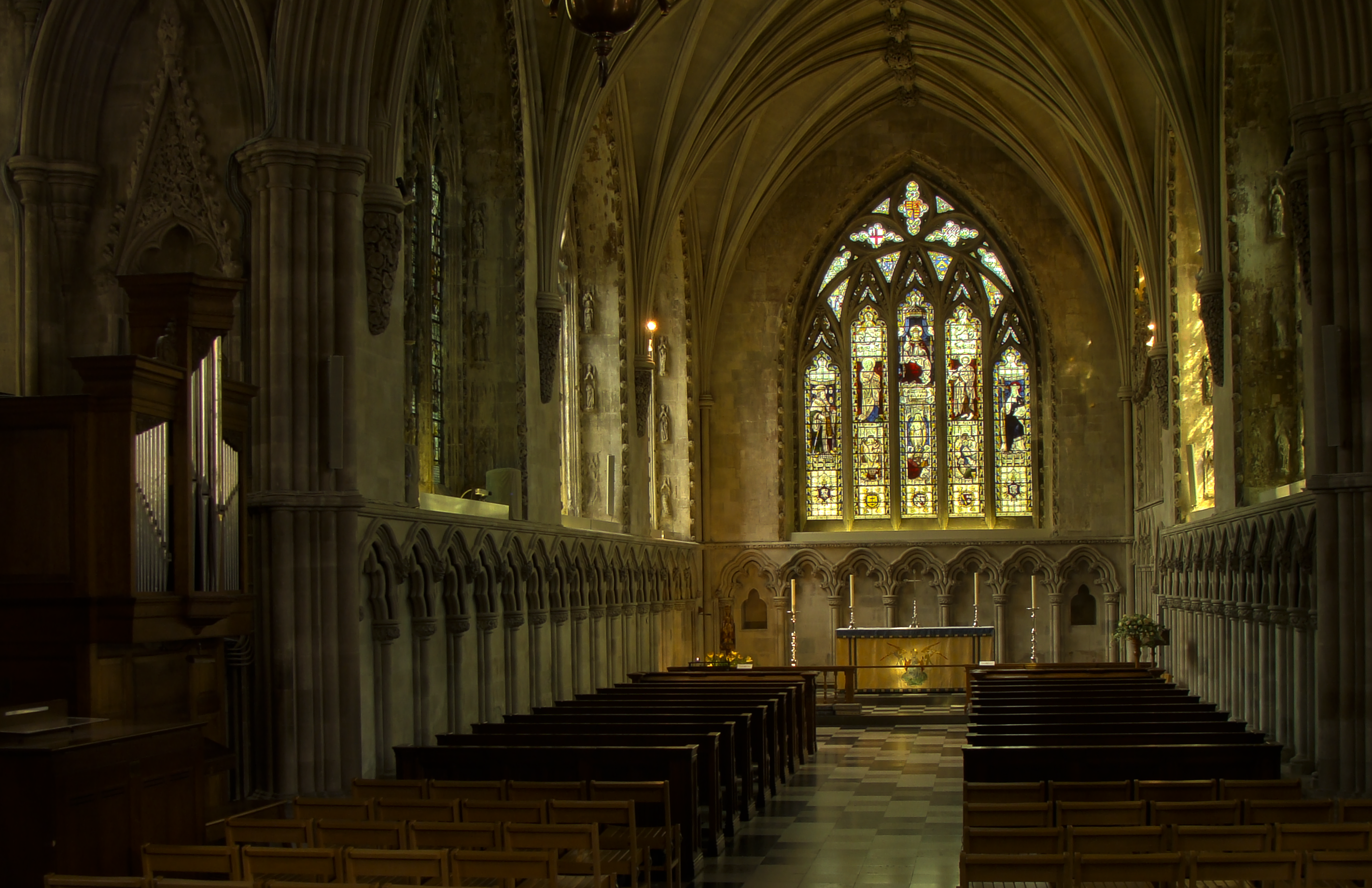 Cathedral in St Alabns, interior.